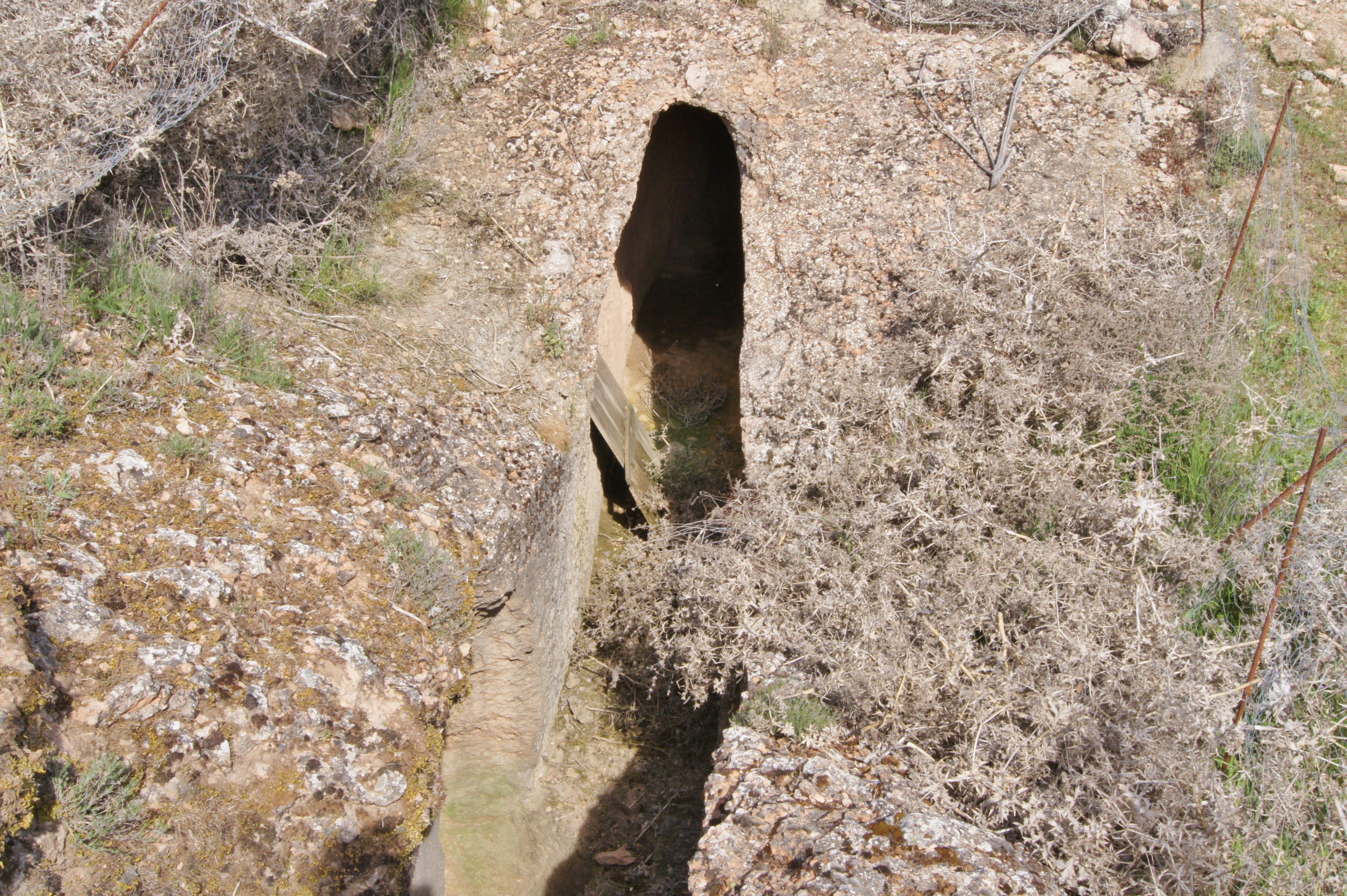 Uxama aquaduct